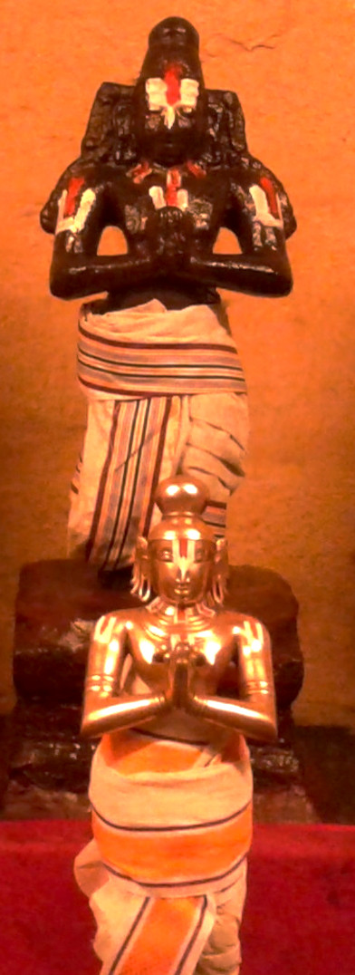 Thirupaan Azhwar